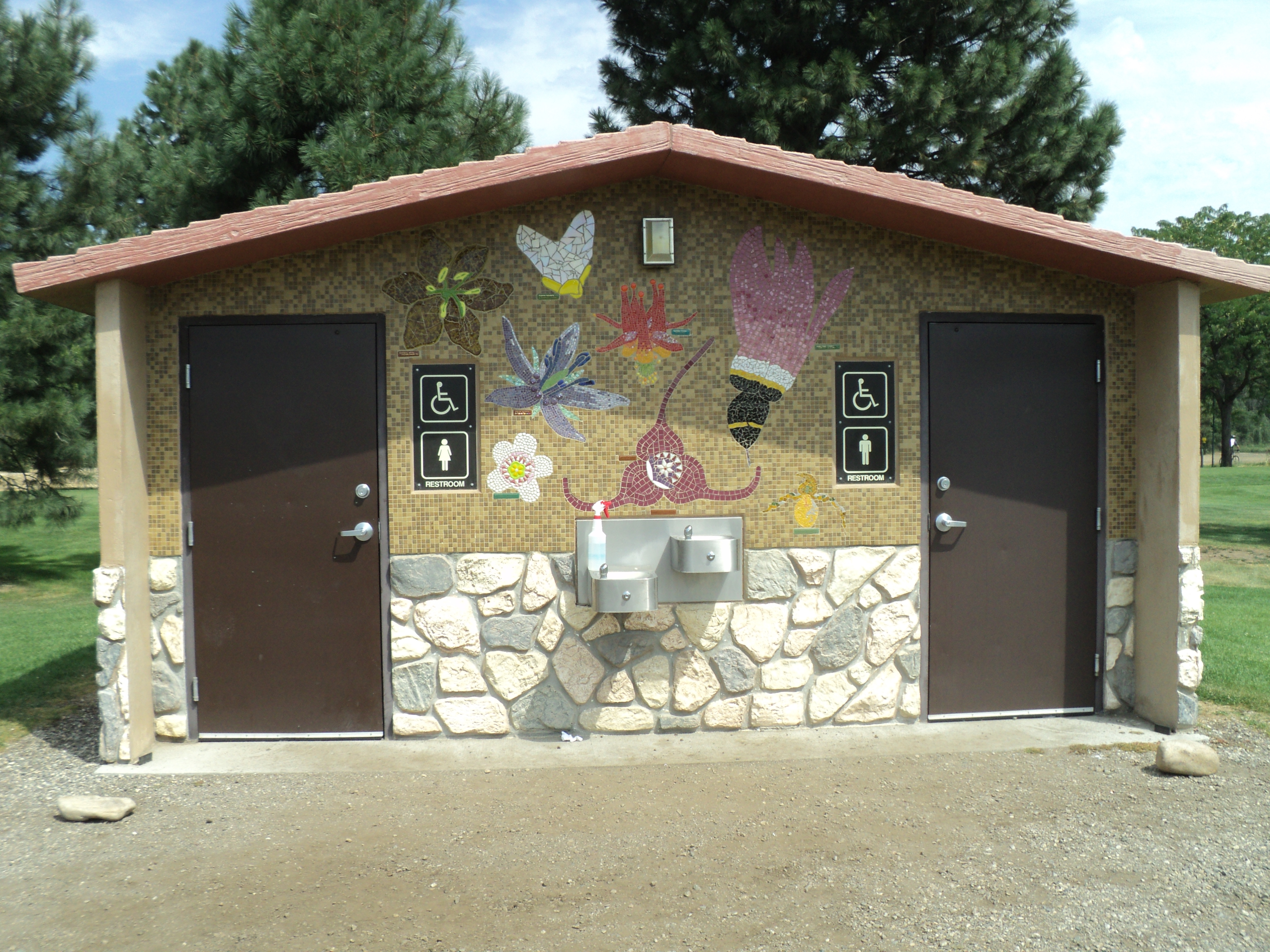 A public restroom on the Boise Greenbelt near milepost NE 2.0 which features local flora in a public art mosaic.